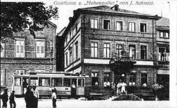 Langenlonsheim, Postkarte von 1902, akpool 112005